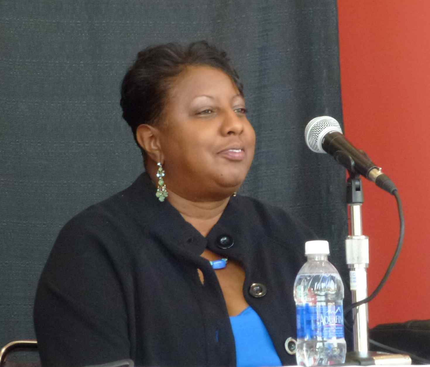 Susan Sommers at the New England Basketball Hall of Fame induction dinner, when she was being inducted into the Hall of Fame.